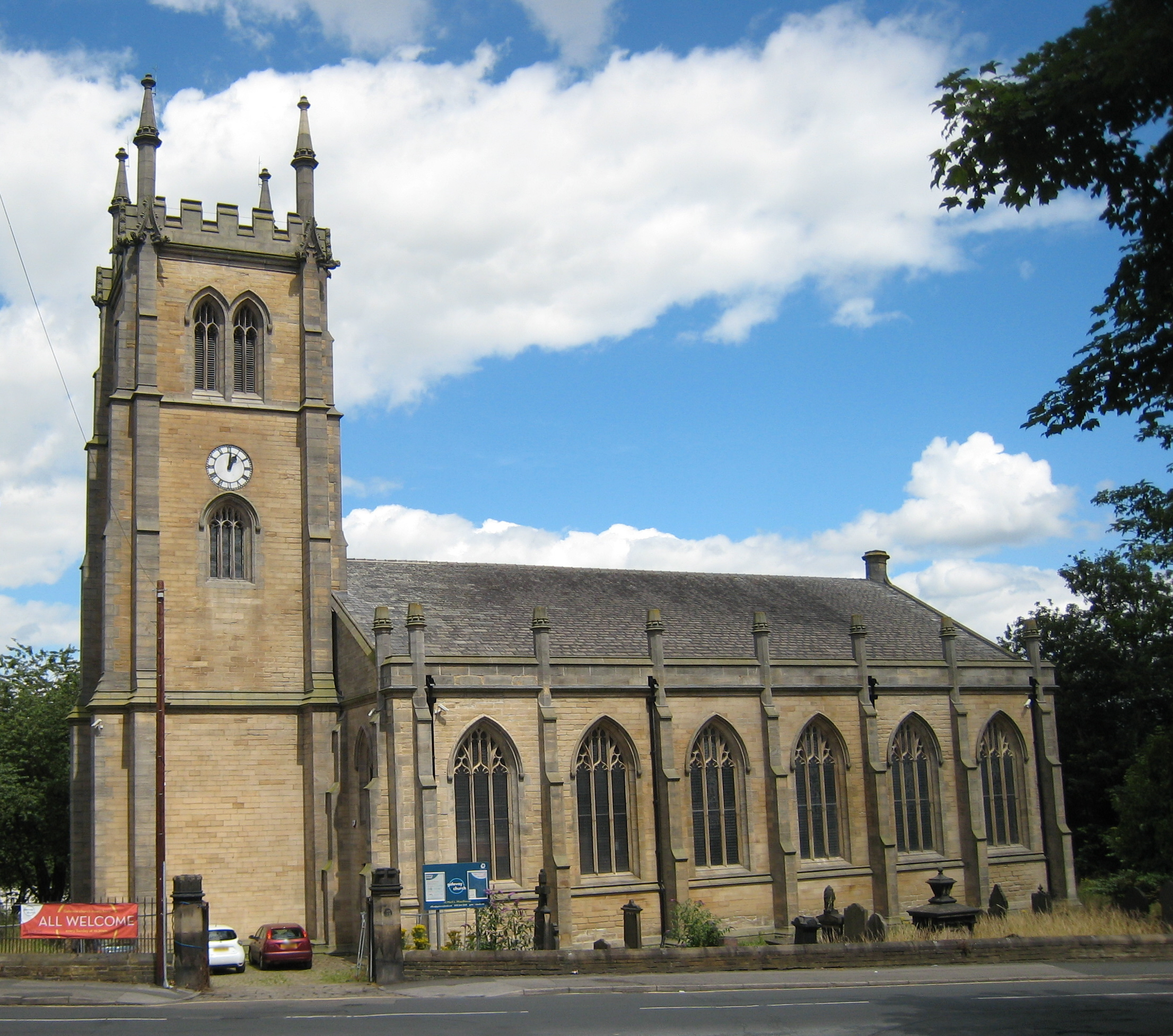 Gateway Church, occupying St Mark's Church, St Mark's Road, Woodhouse, Leeds.